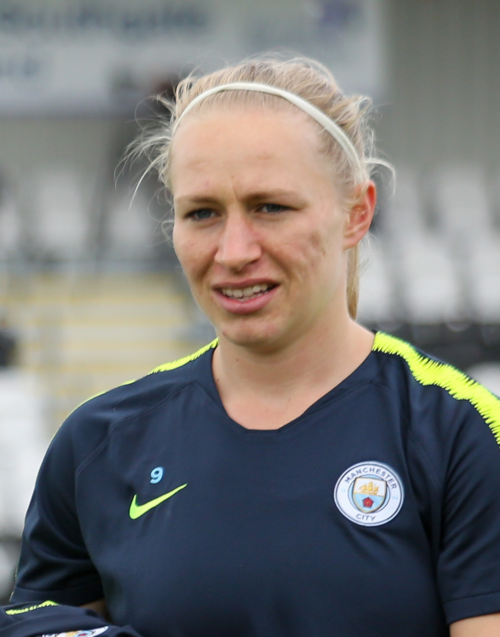 2018–19 FA WSL: Arsenal WFC v Manchester City WFC, 11 May 2019 – Pauline Bremer of Manchester City before the start of the match